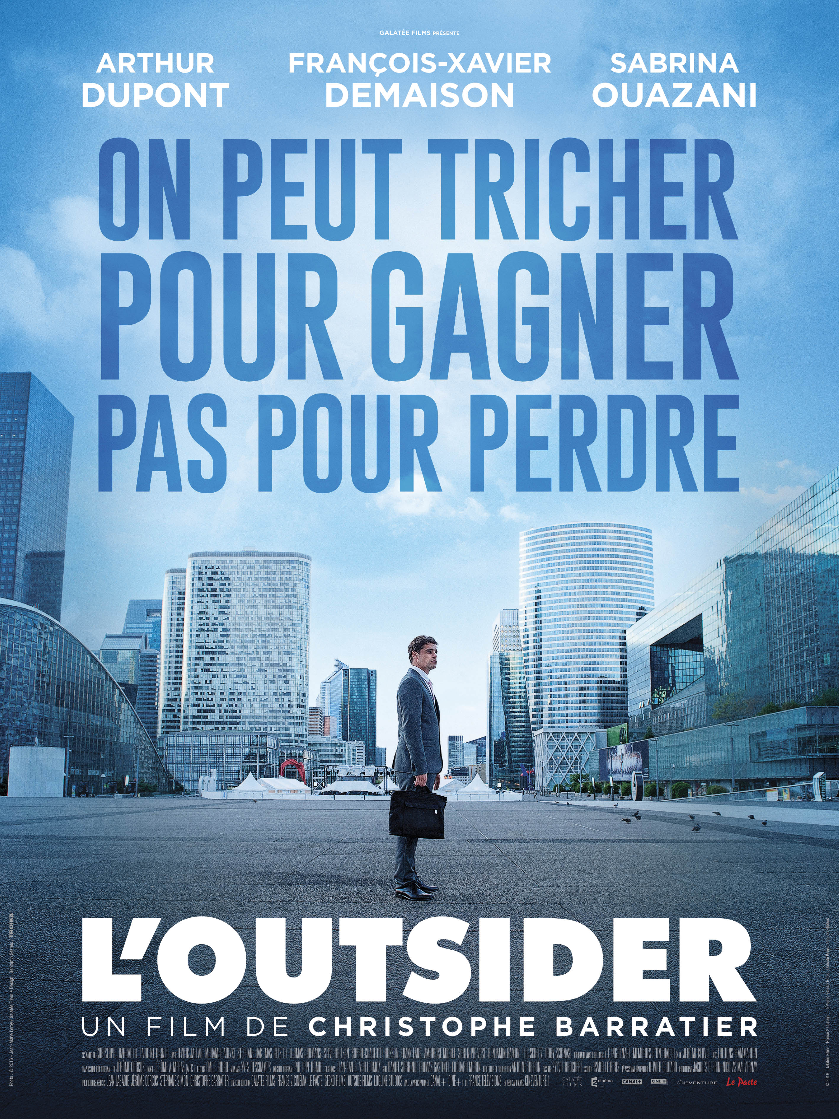 Poster of the movie Team Spirit (Q25111228)